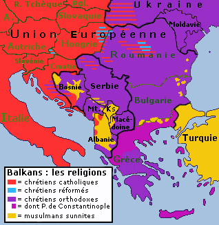 Synthesis from "Westermann Grosser Atlas zur Weltgeschichte", 1985, ISBN 3-14-100919-8, "Atlas des religions", hors-série, ed. du journal le "Monde", Paris 2007, 194 pp., "DTV Atlas zur Weltgeschichte", 1987 traduit chez Perrin, ISBN 2-7242-3596-7,"Putzger historischer Weltatlas Cornelsen" 1990, ISBN 3-464-00176-8, "Atlas historique Georges Duby", Larousse 1987, ISBN 2-03-503009-9, "Atlas des Peuples", André & Jean Sellier, La Découverte : "Europe occidentale" : 1995, ISBN 2-7071-2505-9, "Europe centrale" : 1992, ISBN 2-7071-2032-4, "Orient" : 1993, ISBN 2-7071-2222-X, Történelmi atlasz, Magyar Akademiai, 1991, ISBN 963-351-422-3 CM et dans l'Atlas istorico-geografic, Academie Româna, 1995, ISBN 973-27-0500-0, approximately according with some others such as [1], File:Religions d Europe.png or [2], completed by some Hungarian and Greek sources. The Catholic minority of Voivodina is the Magyar one. The Constantinopolitan Patriarchate's jurisdiction in Greece is not a "separation" but one of the Greek Orthodox churches (sense of the word "dont" in French).